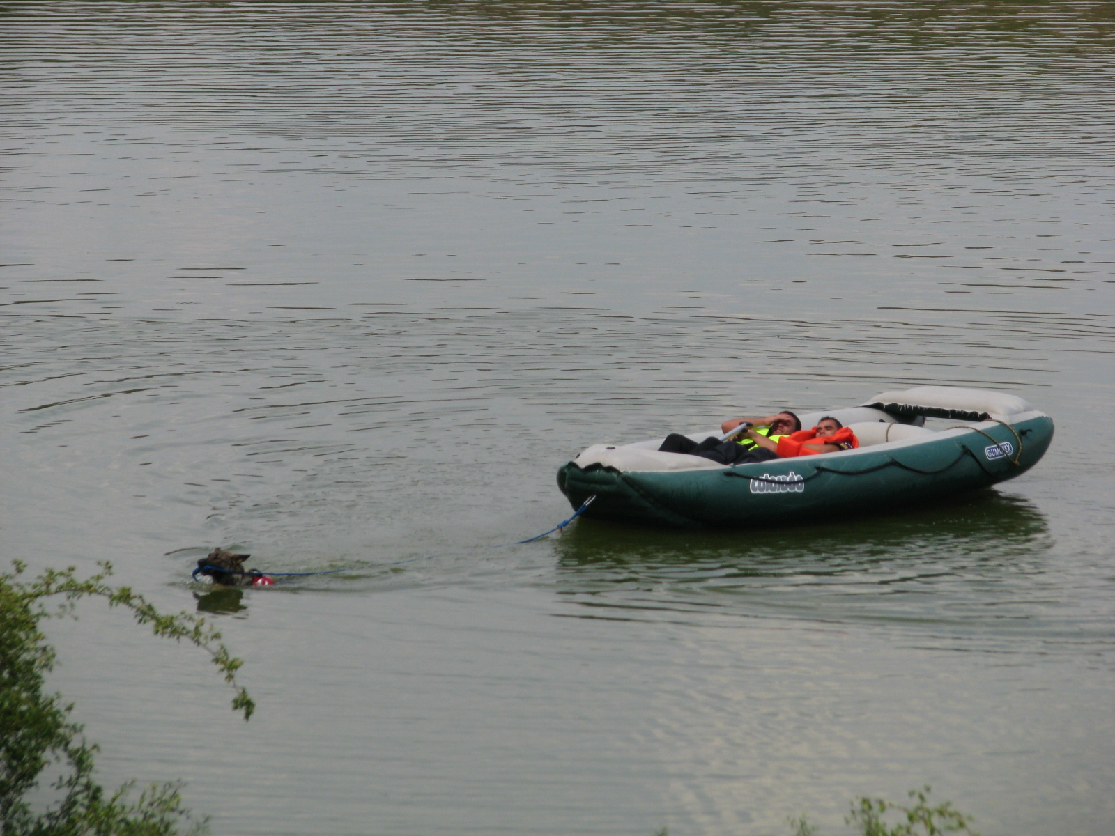 Rescue dog pulling a boat at WCH Romania 2009.jpg